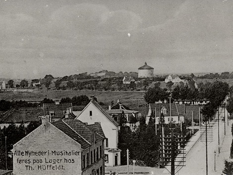 The hill Rævebakken with the water tower from 1905 in Gentofte, Denmark